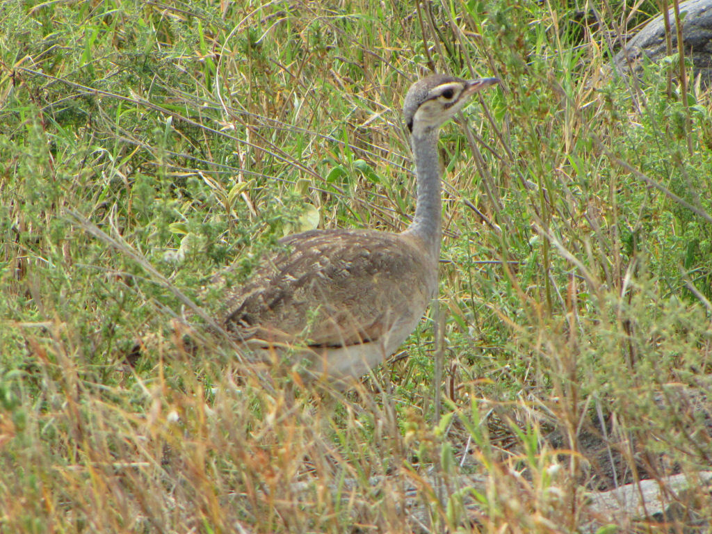 White-bellied Bustard (Eupodotis senegalensis erlangeri), female, Serengeti Park, Tanzania